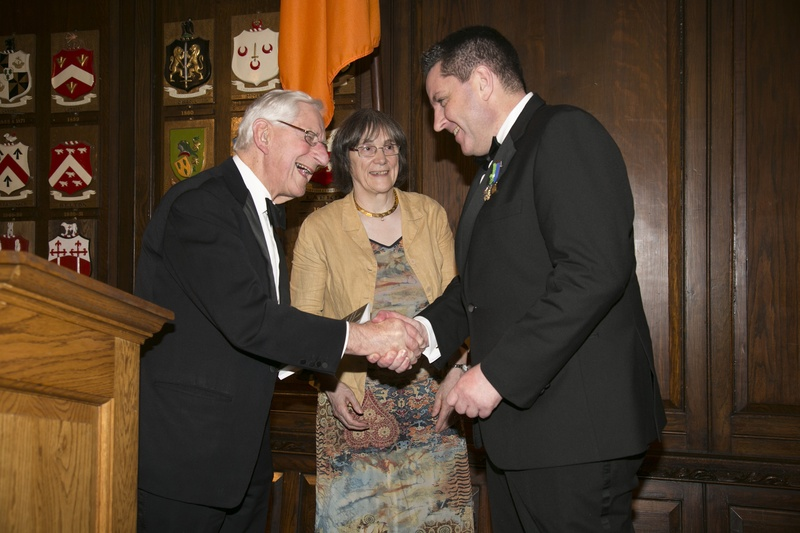 Dr. James O'Higgins Norman receives a presentation from The Prince of Ó Murchadha (Murphy) Clan at Annual Clans Dinner in the Mansion House Dublin, April 2014. Also in the photograph is Prof. Kathryn Simms of Trinity College Dublin.